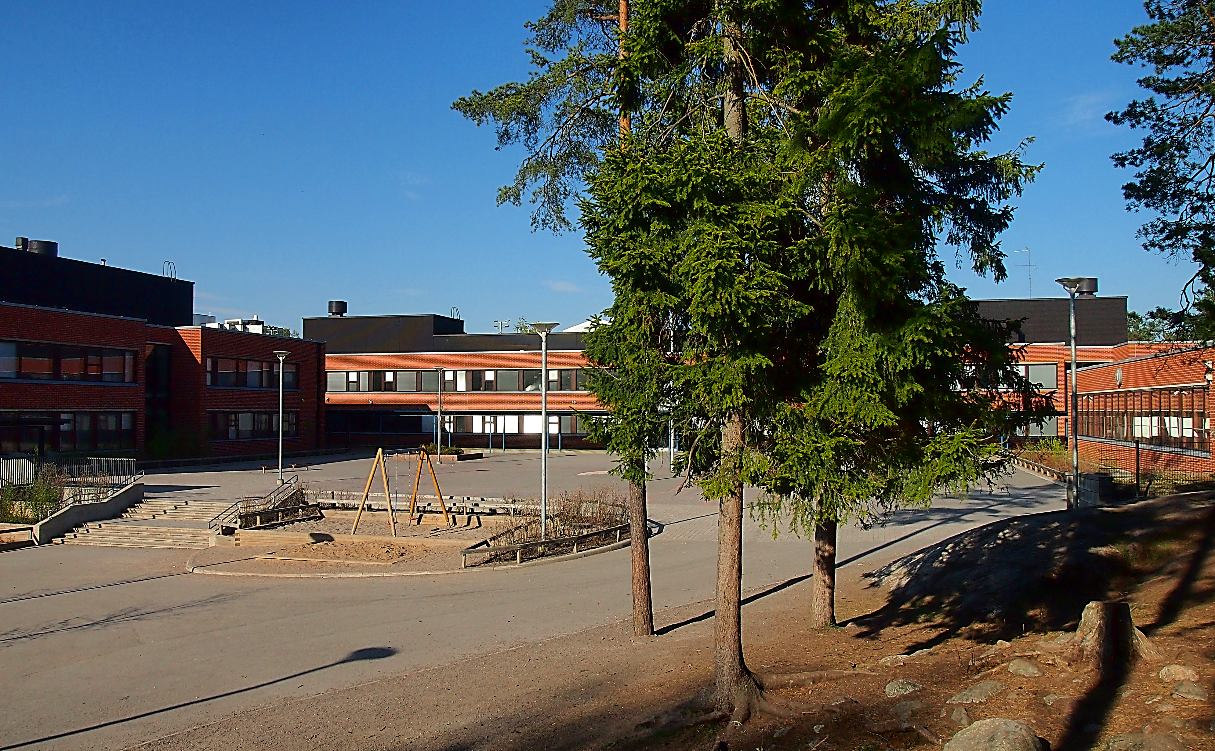 Soukka School photographed from the hill that lies south-west from the school building.